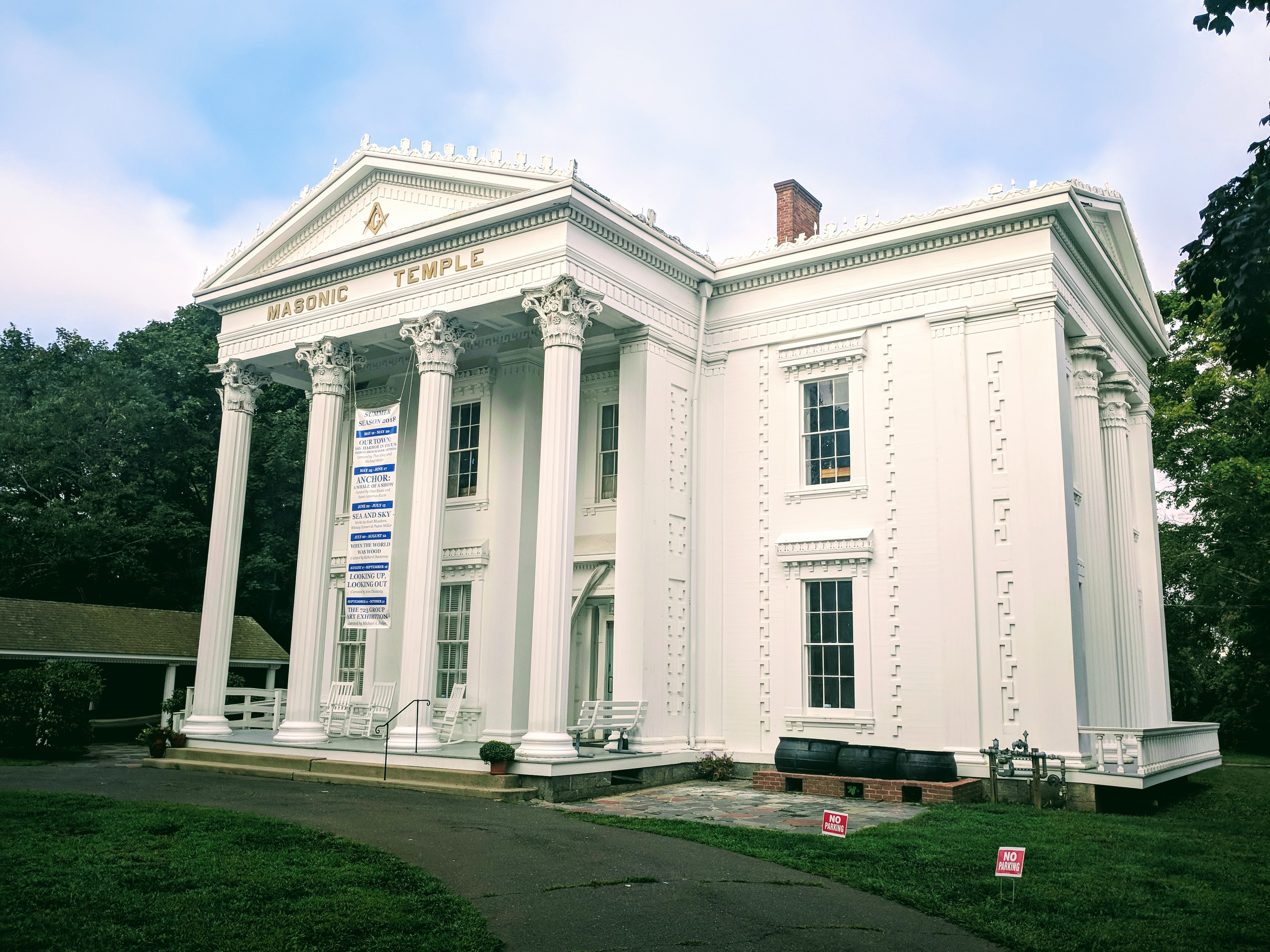 Greek revival home of Benjamin Huntting II owned by Sag Harbor Whaling & Historical museum with Masonic temple on second floor.